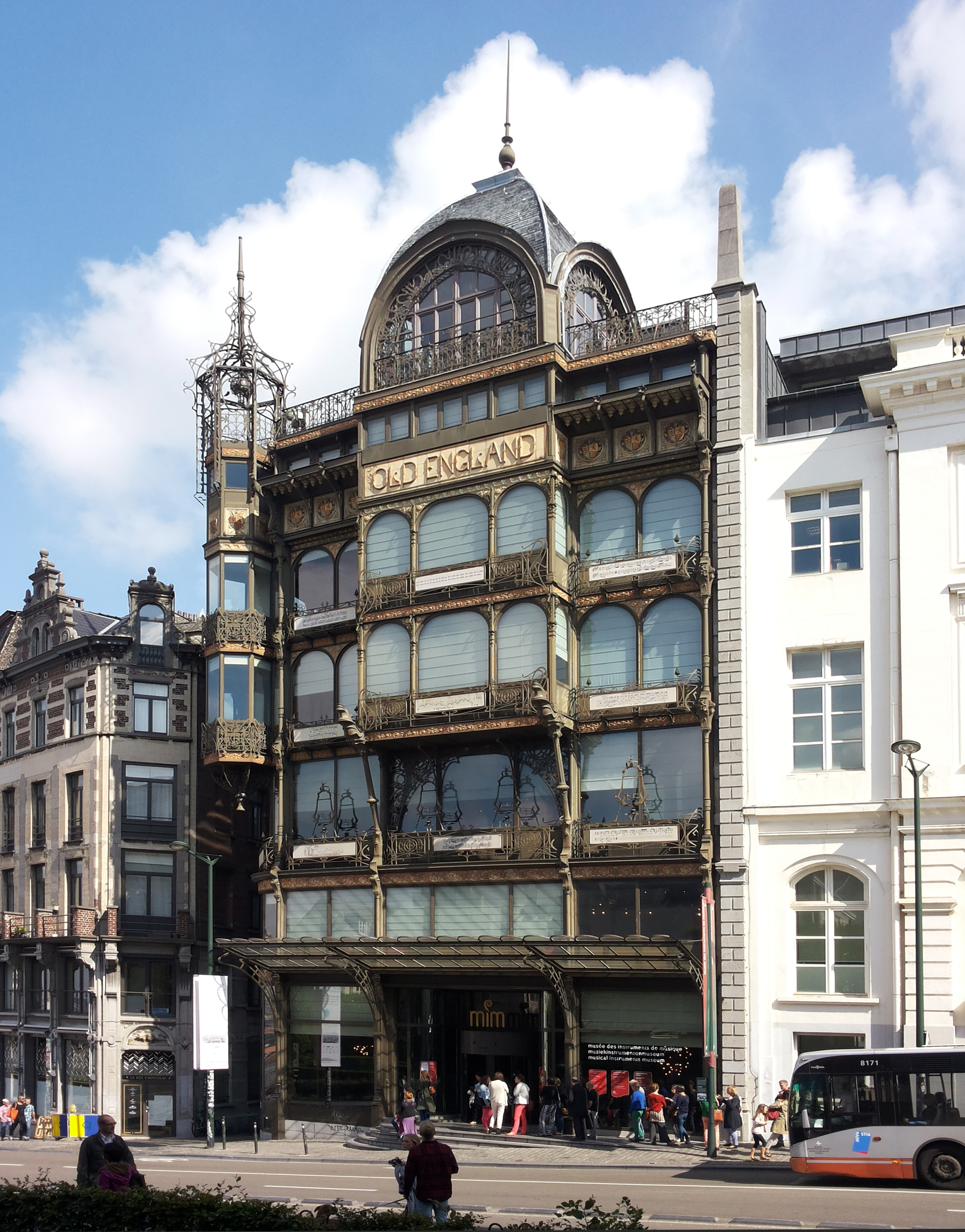 Musical Instrument Museum during SOIMA 2015